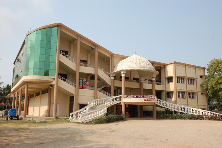 Bhuvanachandra Town Hall in Narasaraopeta Town.